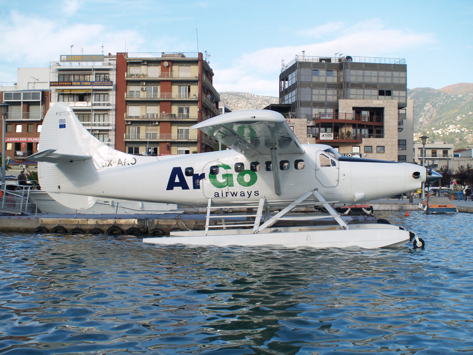 ArGo Airways seaplane (SX-ARO)